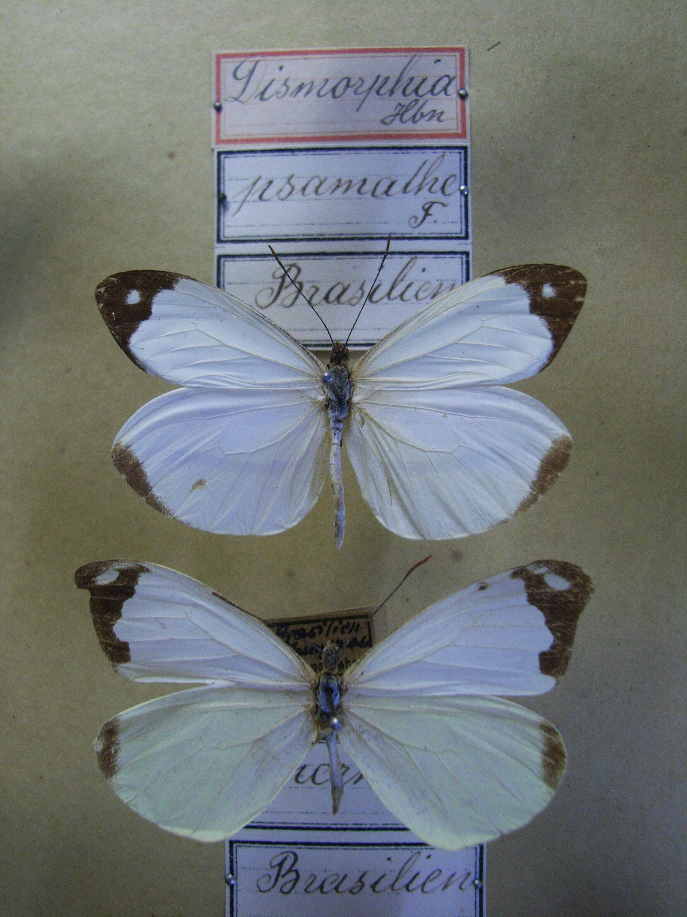 Enantia lina (Herbst, 1972) Dismorphiinae Pieridae Ex coll. Museum Wiesbaden